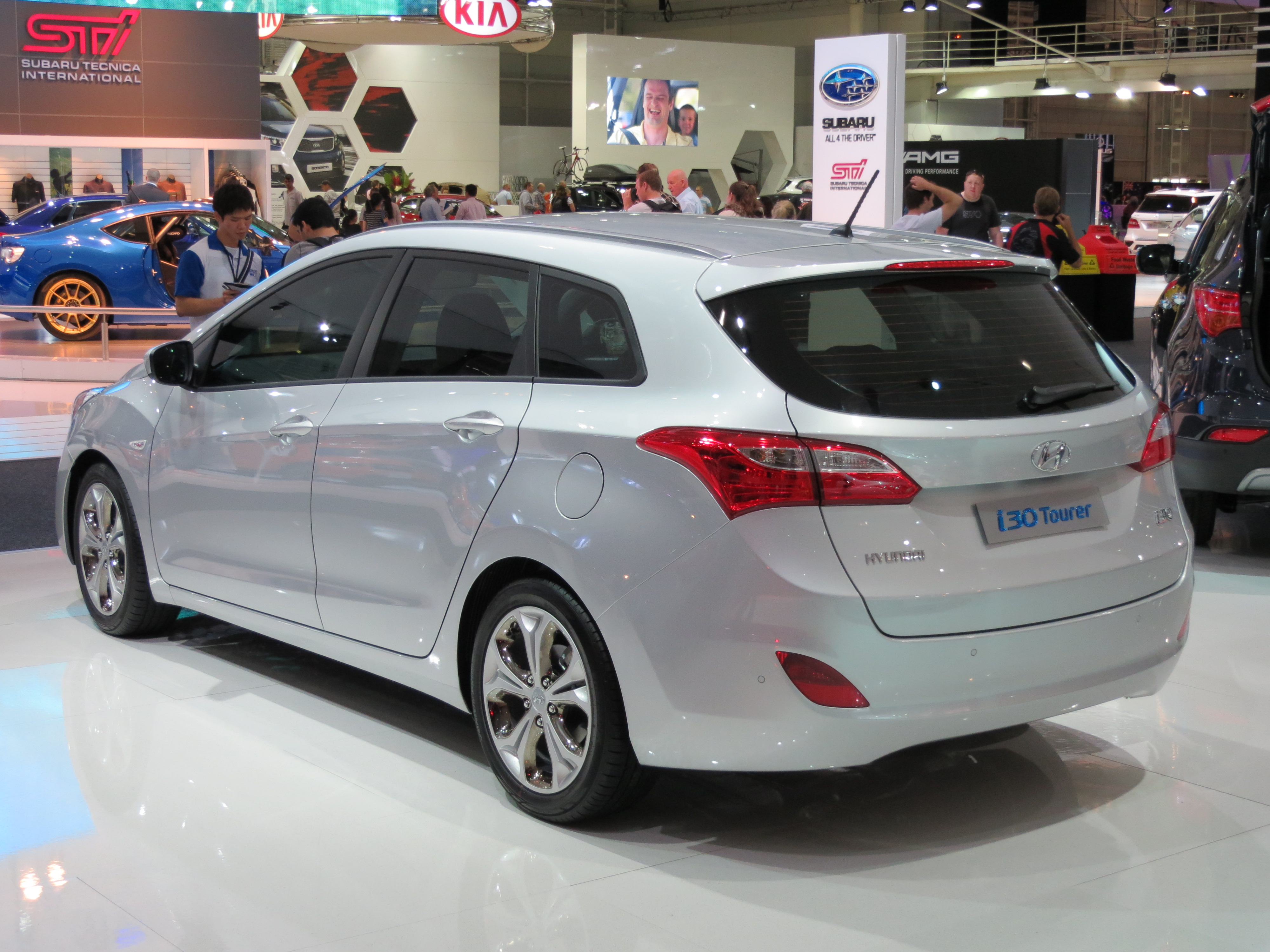 2012 Hyundai i30 (GD) Tourer. Photographed at the 2012 Australian International Motor Show, Sydney, New South Wales, Australia. This is an overseas specification model; the Australian release occurred in February 2013.